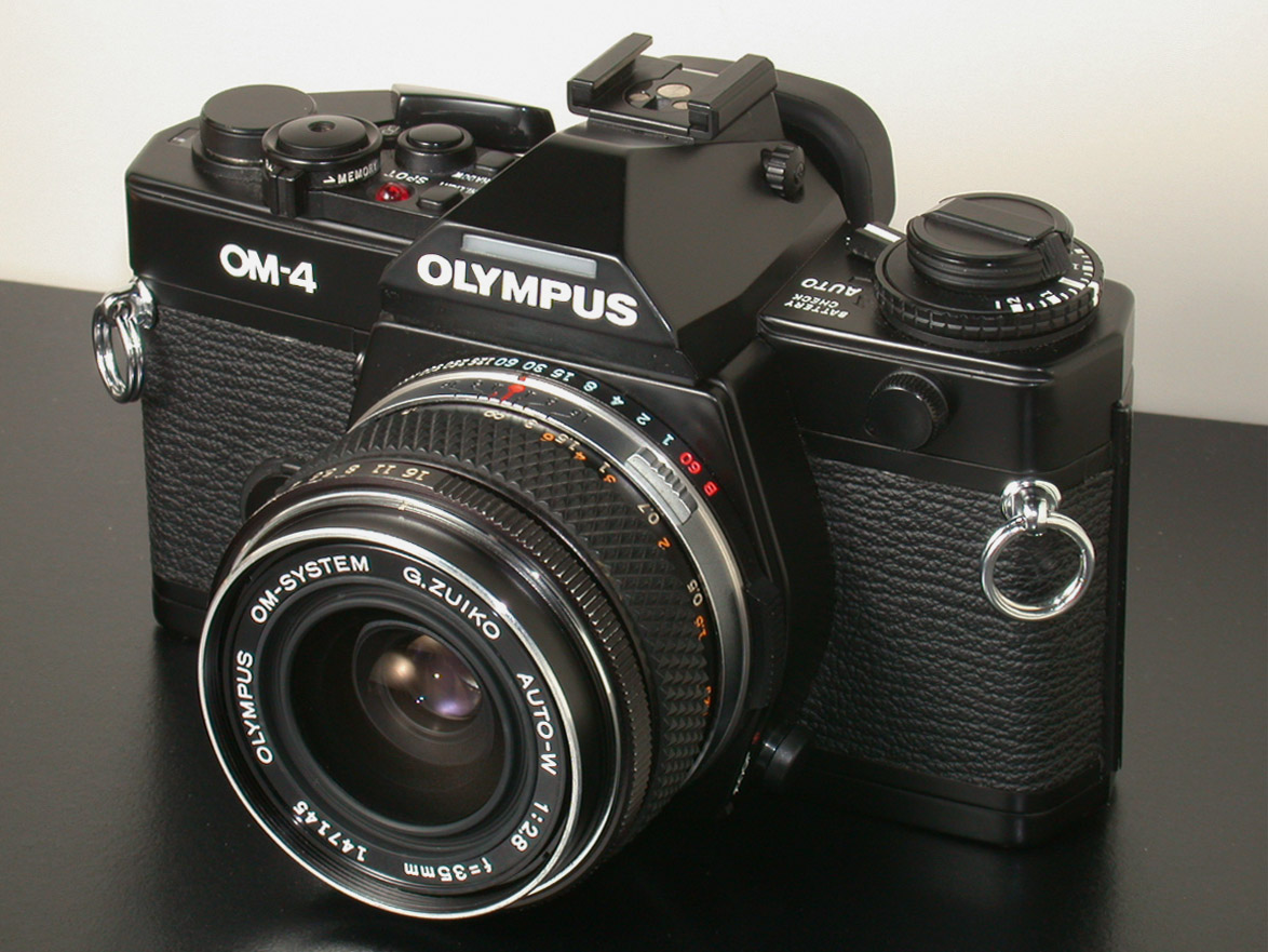 Olympus OM-4 w/zuiko 35mmF2.8